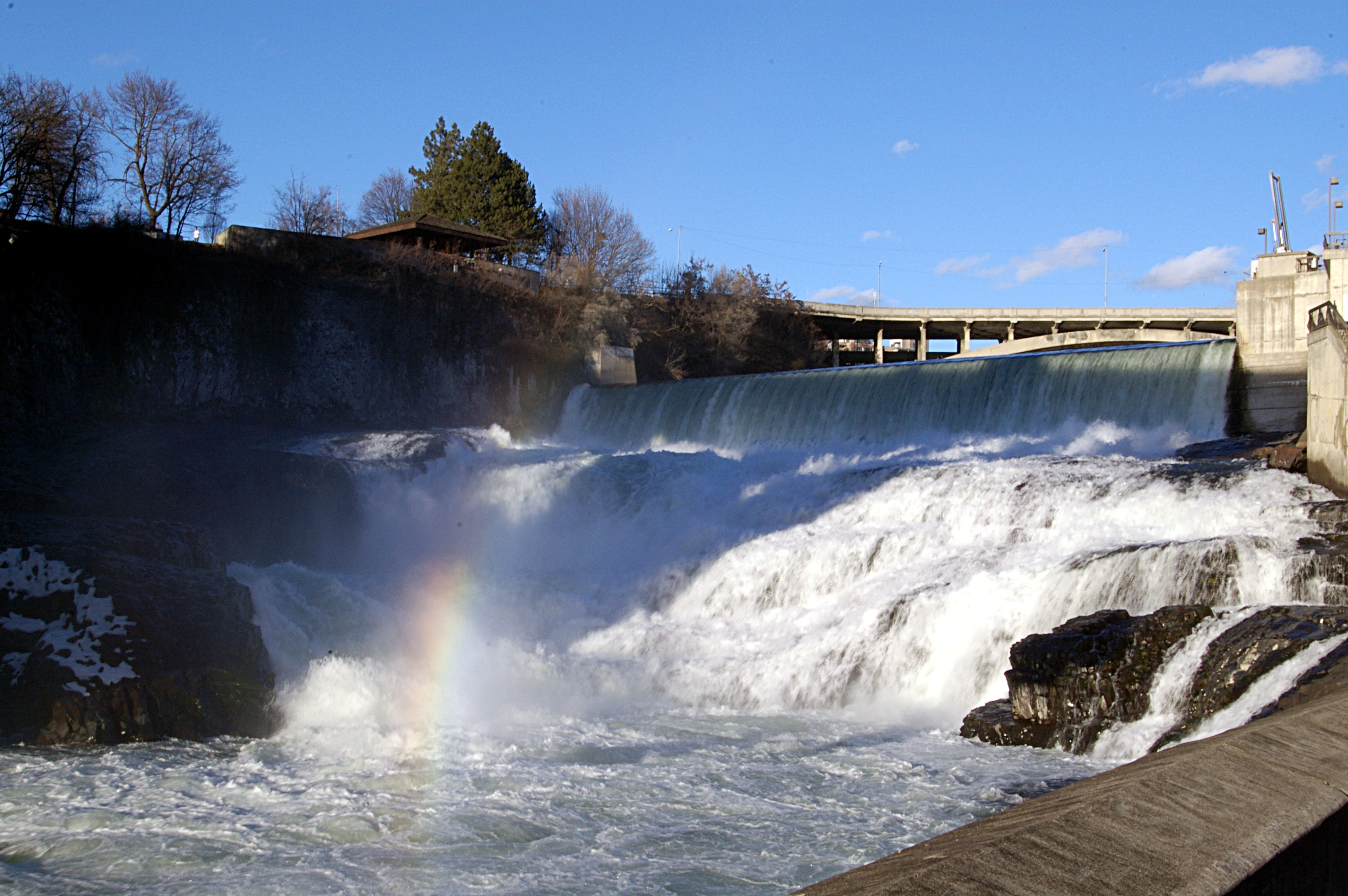 The Lower Spokane Falls, photographed from the Lower Falls powerplant